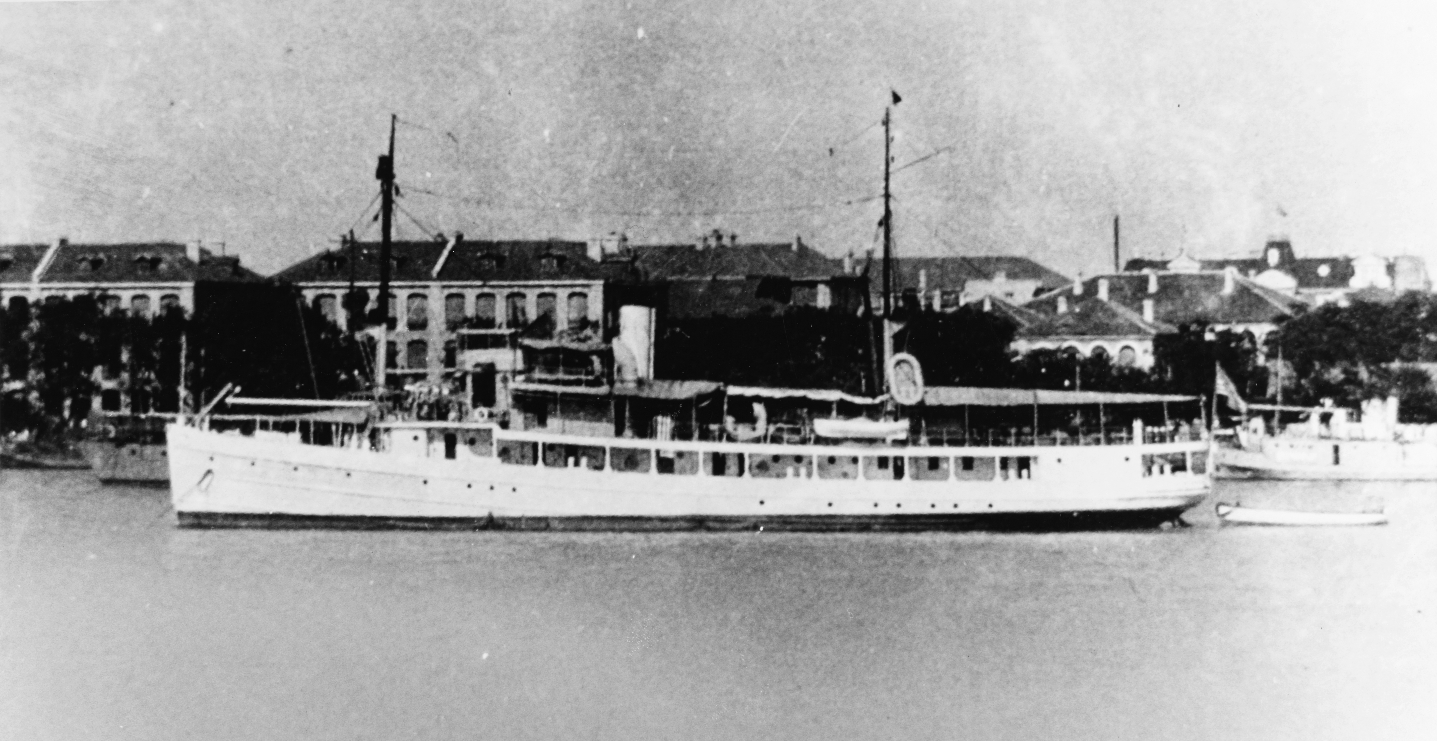 The U.S. Navy minesweeper USS Pigeon (AM-47) in a Chinese port, circa the later 1920s, after she had been modified for use as a gunboat on the lower Yangtze River.